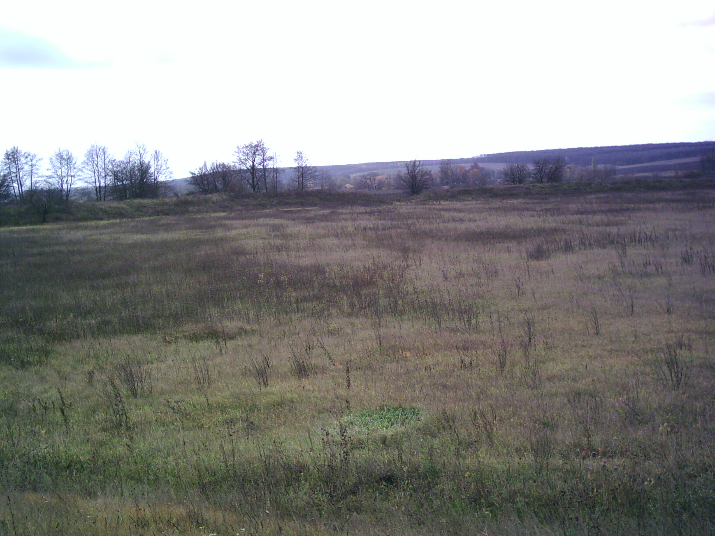 View Bush hillfort